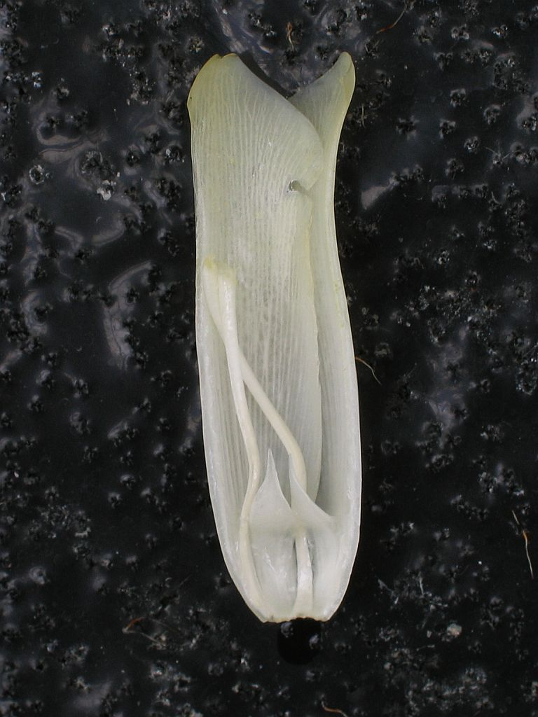 Vriesea roethii in cultivation at the Botanical Garden of Heidelberg, Germany. Note the little scale-like Ligulae at the base of the petal, which typical for this genus.